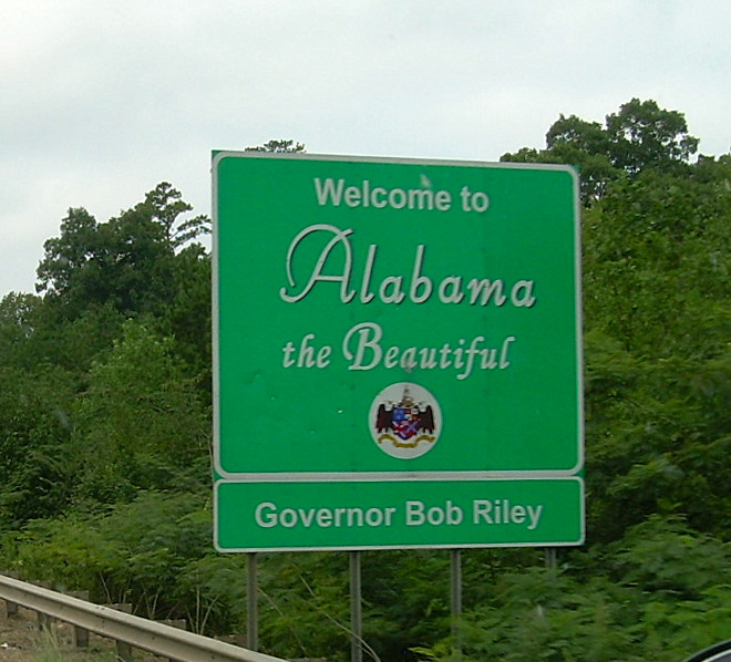 Alabame state welcome sign